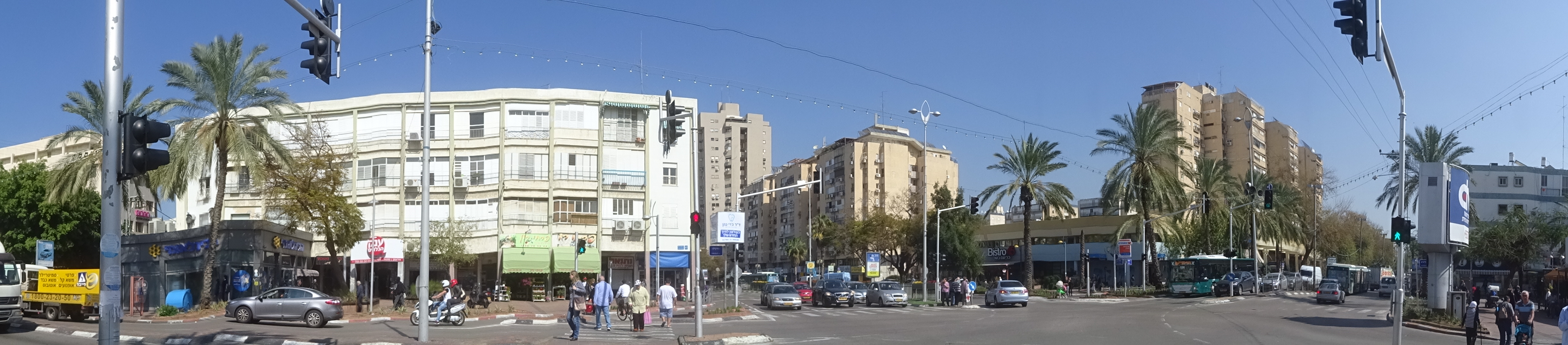 Panorama of the Sokolov st. and Kugel st. Junction in Holon which is one of the busiest junctions in the city